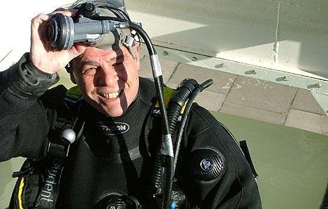 Nick Girdler after his underwater broadcasting challenge.